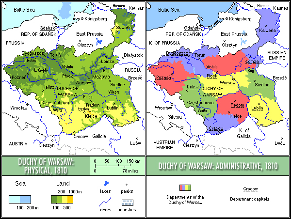 Duchy of Warsaw 1810: physical/administrative